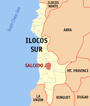 Map of Ilocos Sur showing the location of Salcedo